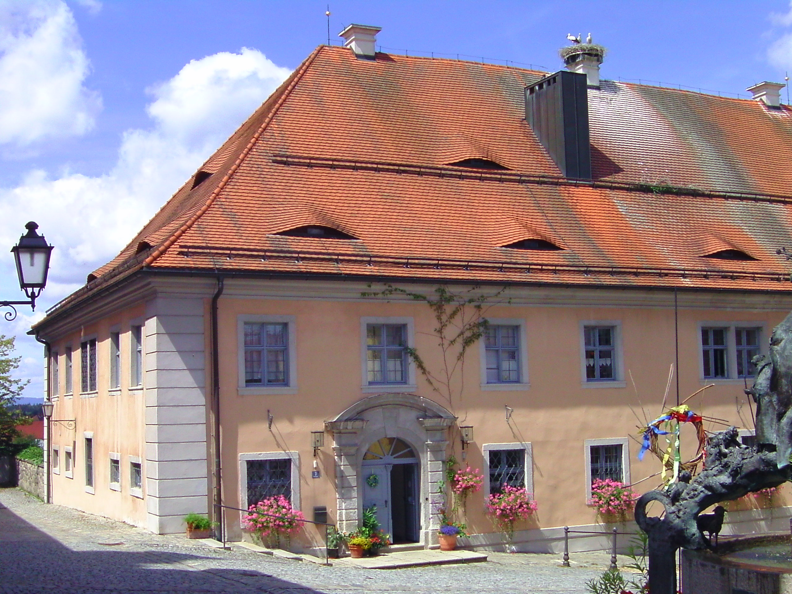 Catholic administrative building in Tirschenreuth